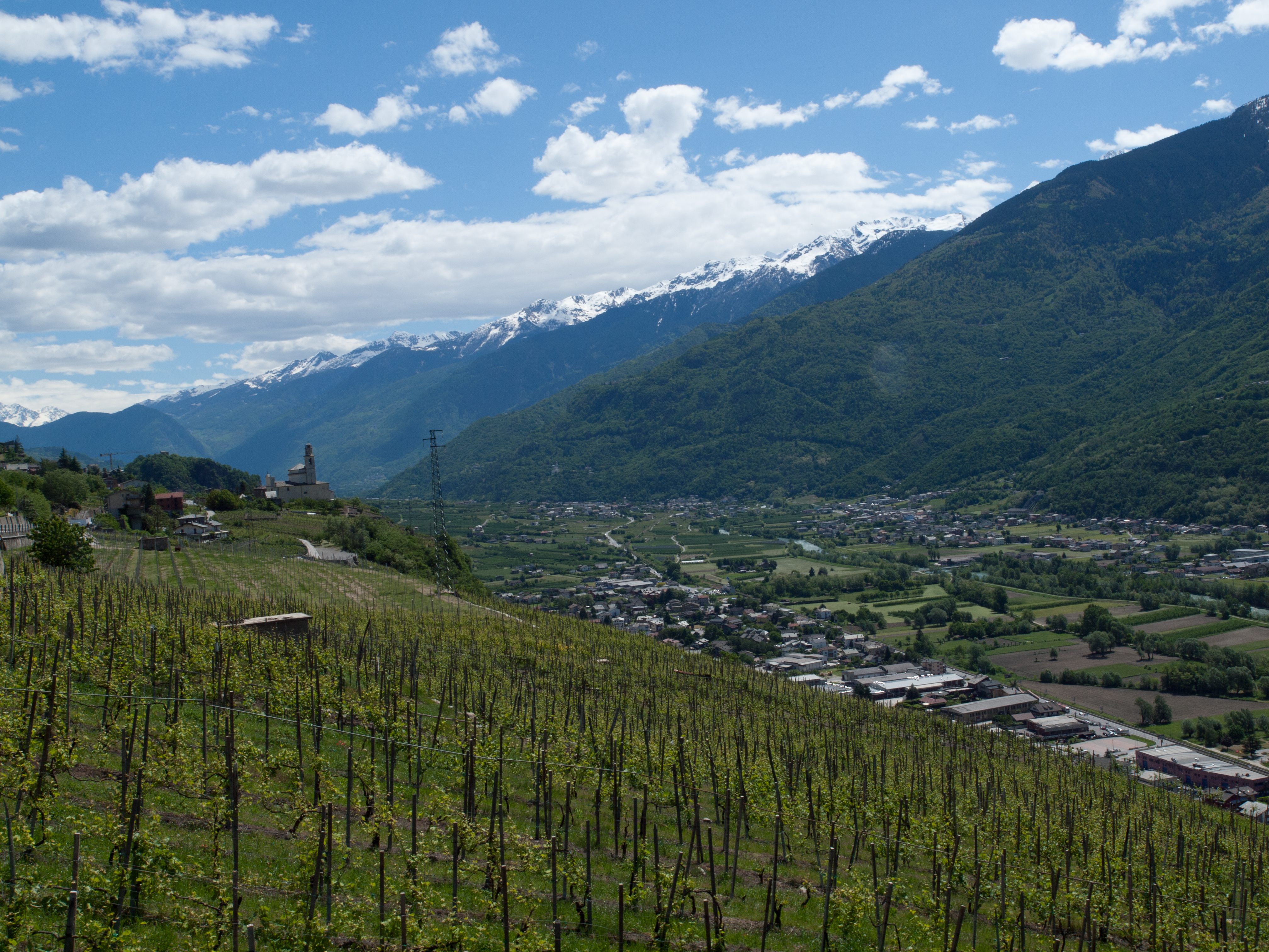 Vineyards in the Italian wine region of Valtellina in Lombardy